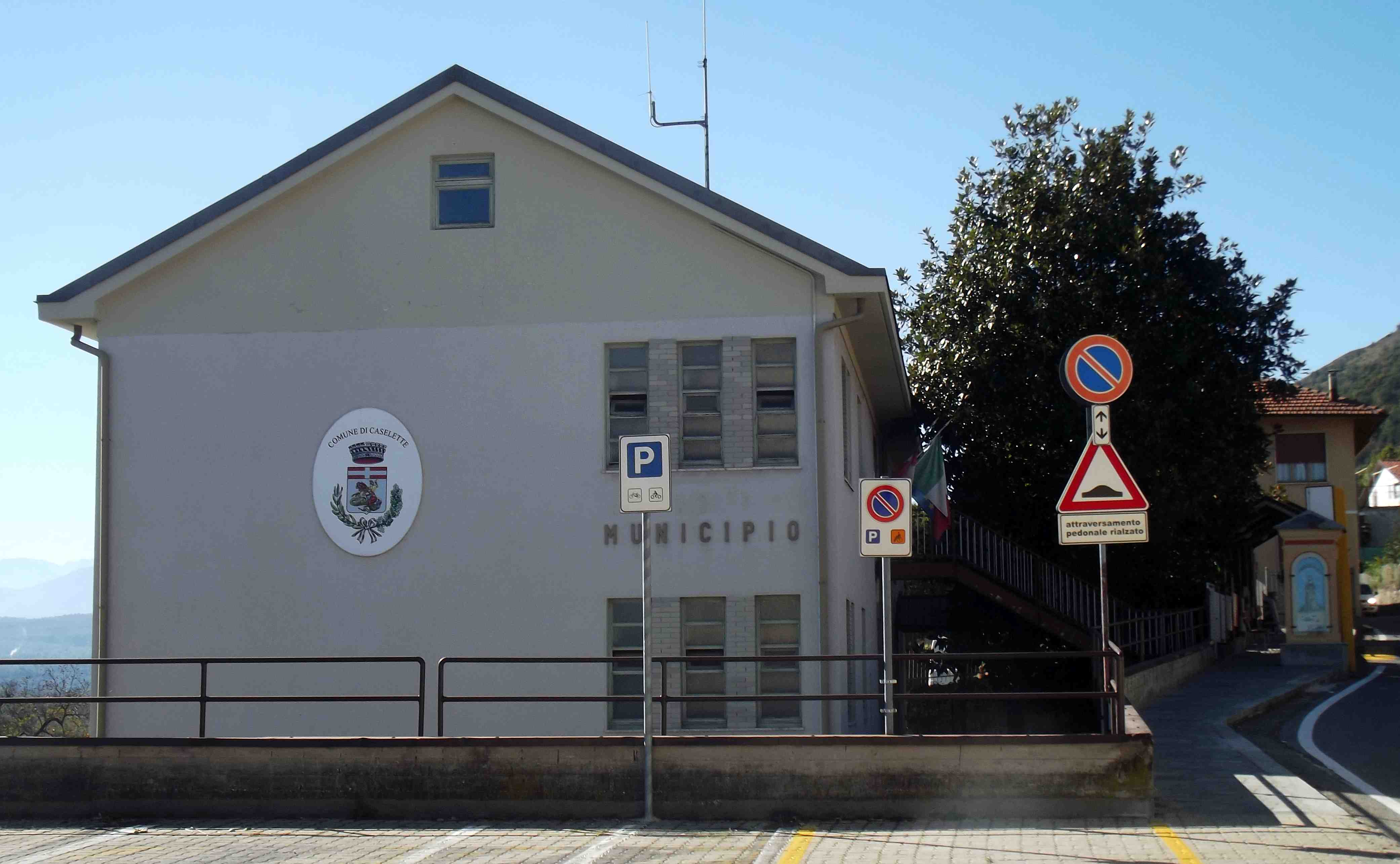 Caselette (TO, Italy): town hall